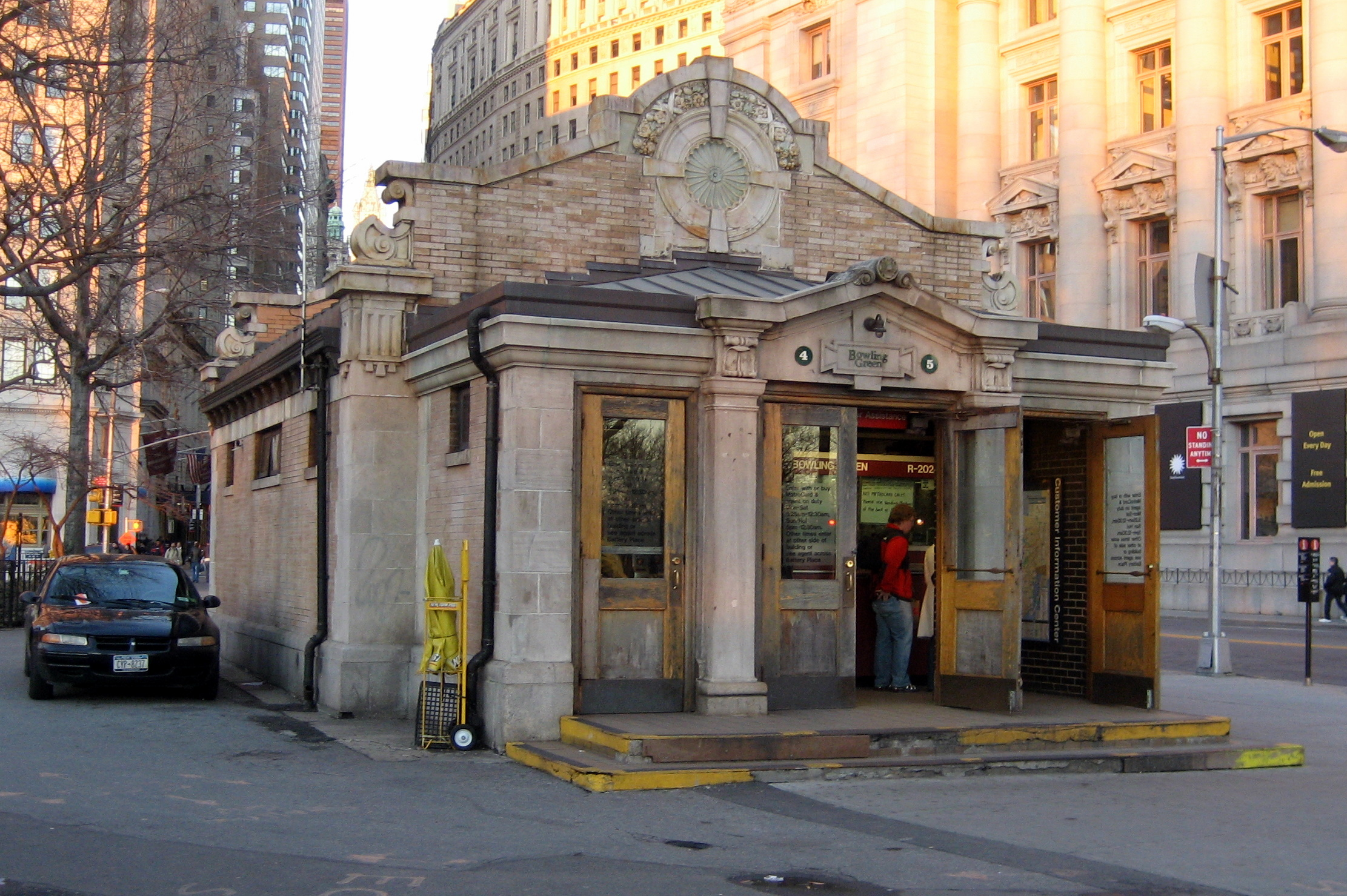 IRT Control House at Bowling Green station on the IRT Lexington Avenue Line.This garden-pavillon-like entrance is located underneath Bowling Green Park at the southern end of Broadway. It was built by Heins & LaFarge in 1905 and represents the old glory of New York's first subway line. It was designated a landmark in 1973.